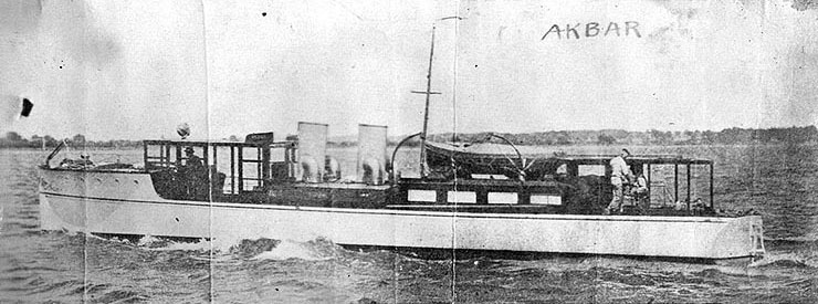 Akbar (American Motor Boat, 1915) Underway prior to World War I. This pleasure craft was purchased by the State of Maine for section patrol work in local waters, in anticipation that she would be taken over for First World War Naval use. The Navy purchased her on 17 May 1917 and placed her in commission on 31 May as USS Akbar (SP-599). She was decommissioned on 17 January 1919, stricken from the Navy list on 2 October 1919 and sold on 2 January 1920. U.S. Naval Historical Center Photograph.